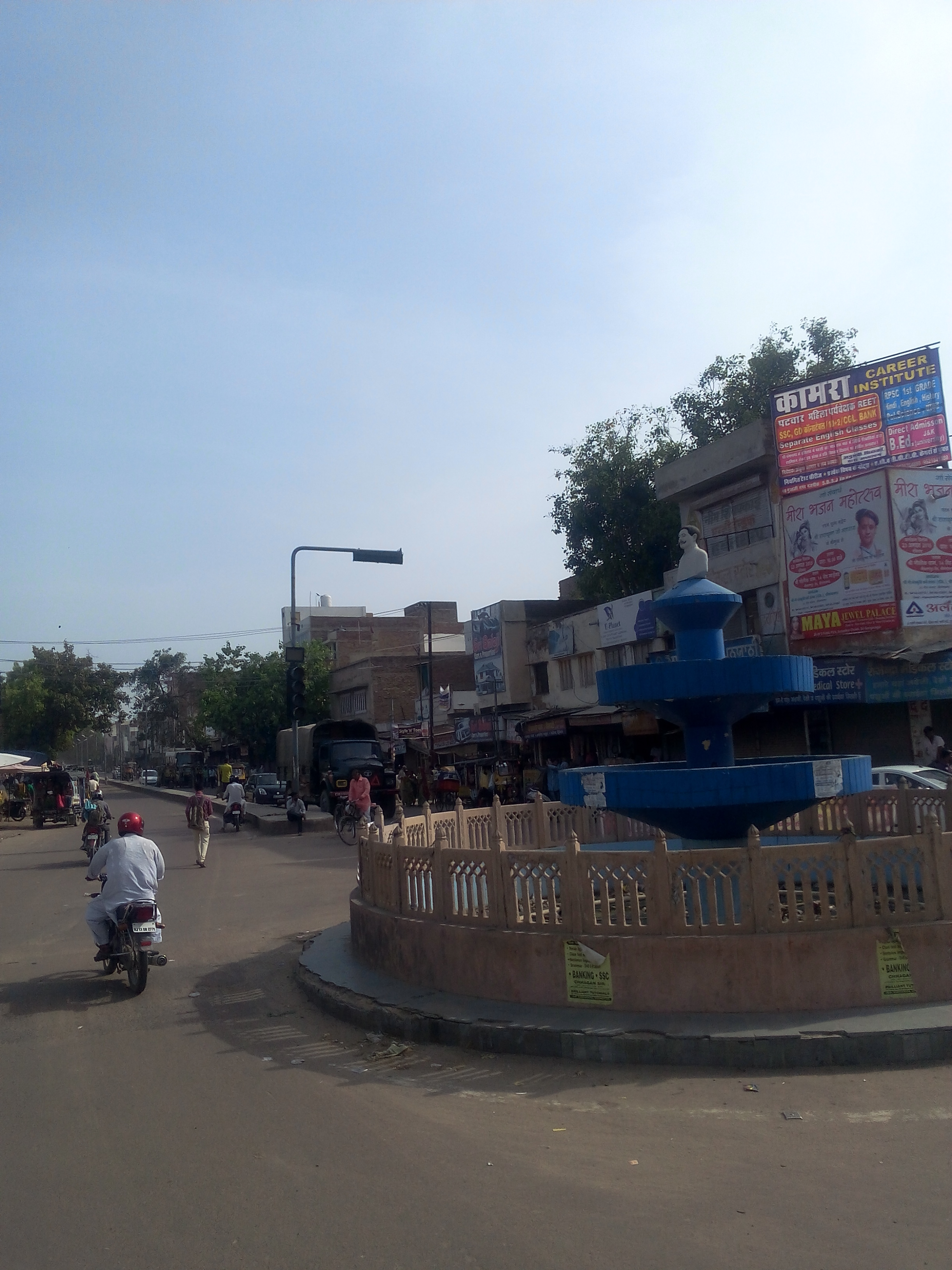 This image is taken by me.In this image you can see Sheed Birbal chowk or square at Ganganagar city in India built in the remebrence of martyr Birbal.